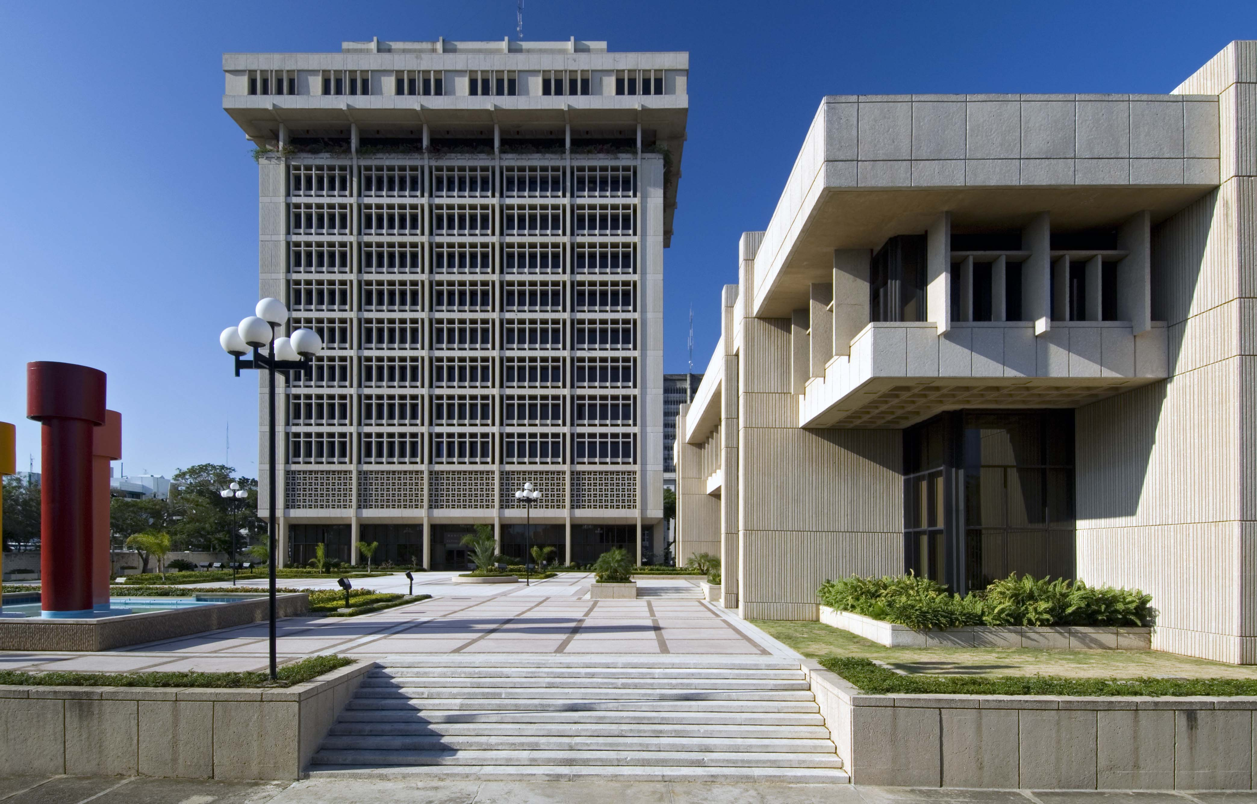 View of the tower of the Central Bank of the Dominican Republic, in Santo Domingo